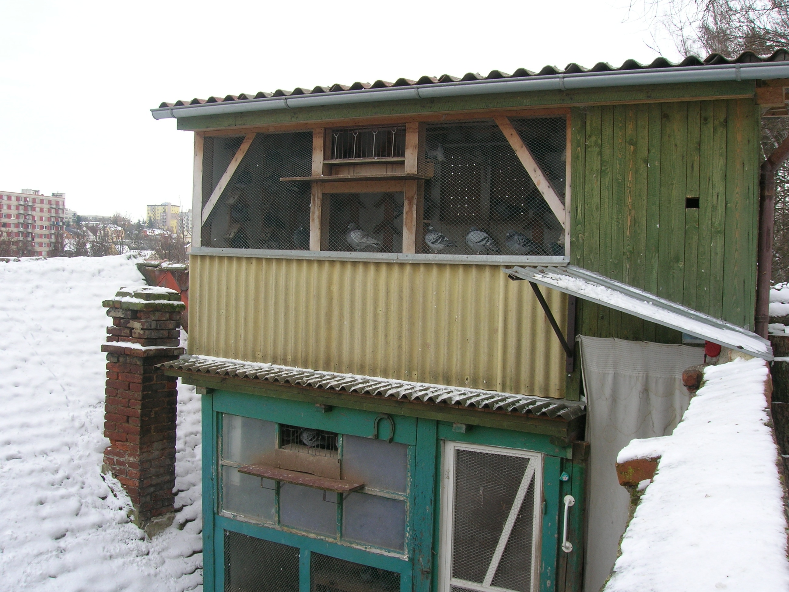 Třebíč-Jejkov. Chmela's Street. A pigeon-loft